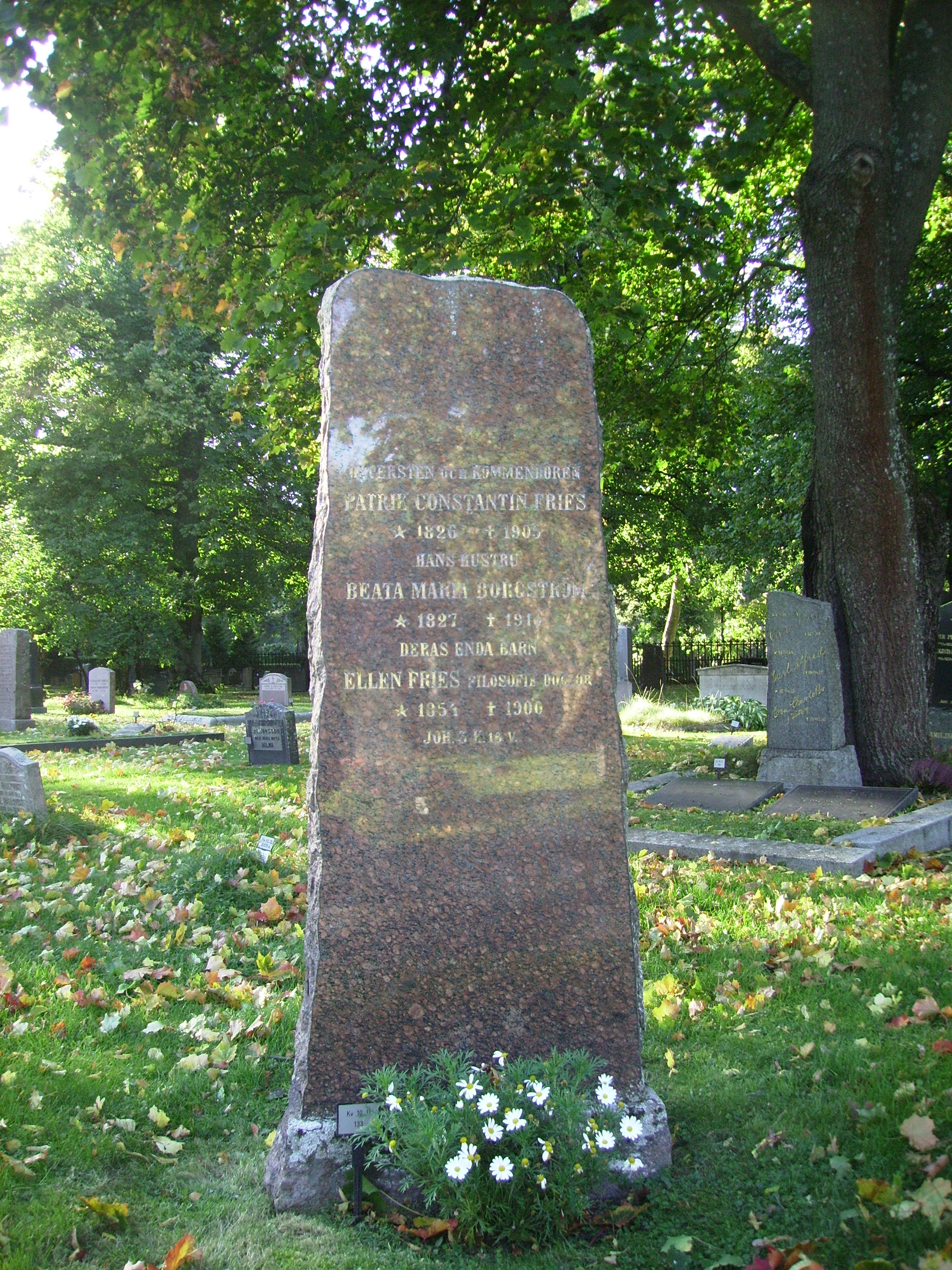 Picture of Ellen Fries grave at Norra begravningsplatsen in Solna